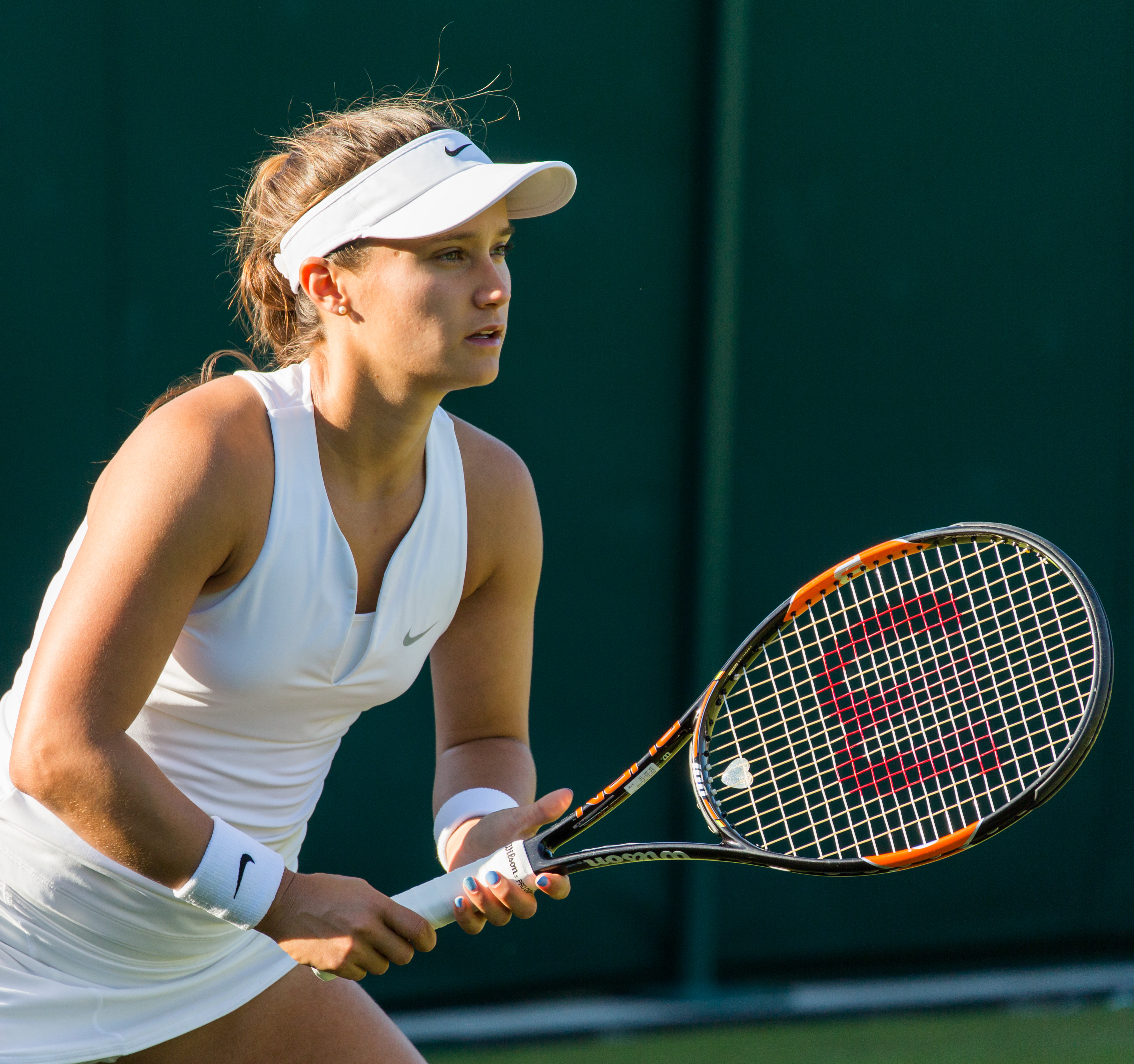 Lauren Davis competing in the first round of the 2015 Wimbledon Championships.